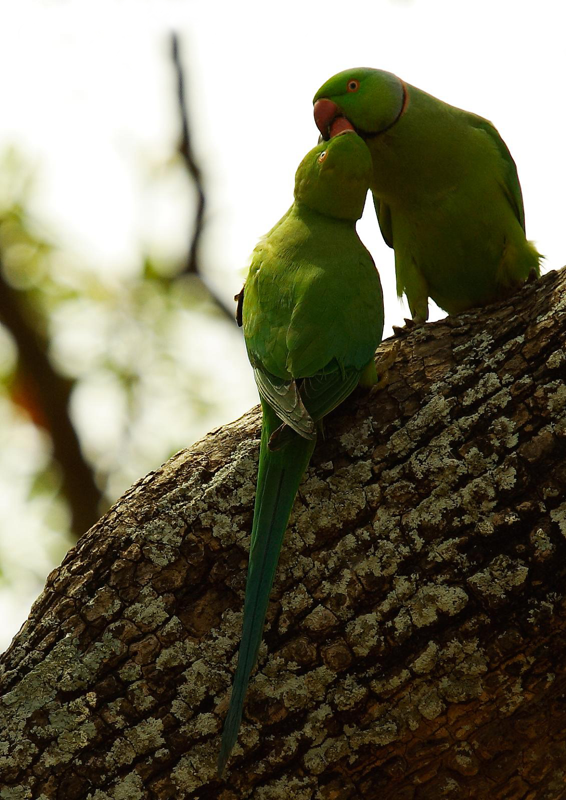 Though I've been among Parakeets since my childhood, I have never quite seen anything like this before - These are a couple of Ring-necked Parakeets - The one on top is the mother, and it's feeding the younger one. Considering the young one had fully grown wings, and it was able to fly around comfortably. Scientific name Psittacula krameri; also known as Rose-ringed Parakeet I over-shot Kokrebellur village, by mistake, continued down the road. Got this on the way back to the village.